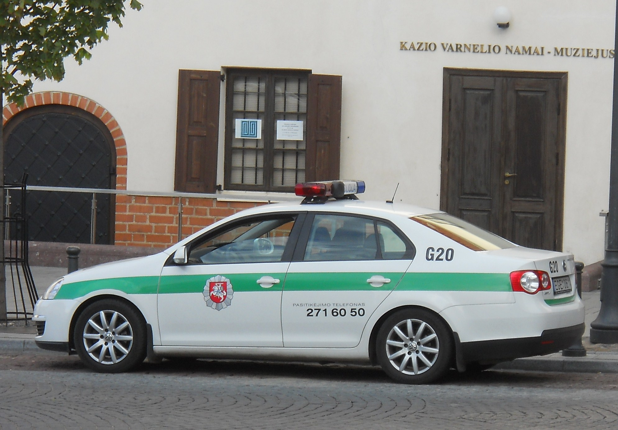 Photo of Volkswagen Jetta used as a police car in Vilnius, Lithuania.